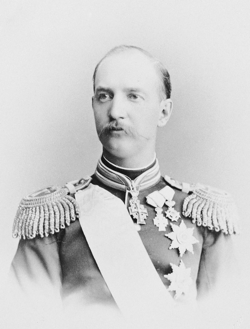 Half length portrait of King George I of Greece wearing military uniform with Order Stars (x2) and sash. He faces 3/4 right.